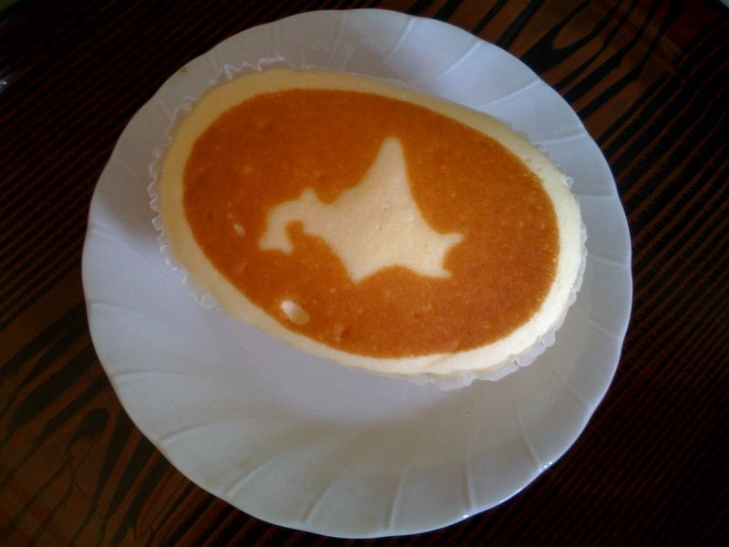 Cheddar cheese steamed cheesecake. "Cheesecake" in Japan is quite different from that in the US. Fluffy, sweet, and light. In Japan, if it is "American style," the item is sometimes labeled "New York cheesecake." This product is made by Yamazaki Baking Co of Japan and is one among the scores of Yamazaki baked goods. The "branded" mark is that of Hokkaido, the northern most of Japan's main islands, known for wide open spaces, natural beauty, hot springs, dairy farms, milk products, and super delicious seafood. iPhone2 photo [1]